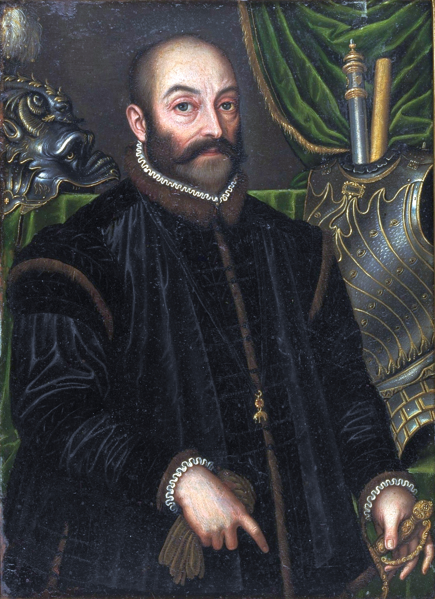 Guidobaldo II della Rovere, Duke of Urbino (1514–1574), Wearing an Armor by Filippo Negroli Date: ca. 1580–85 Culture: Italian Medium: Oil on copper Dimensions: 5 1/2 x 4 in. (14 x 10.2 cm); frame: 7 1/8 x 4 7/8 in. (18.1 x 12.5 cm) Classification: Paintings Credit Line: Purchase, Arthur Ochs Sulzberger Gift, 2009 Guidobaldo II della Rovere (1514–1574) was a professional soldier, ruler of the duchy of Urbino, and an important patron of armor. This portrait includes his batons of command and portions of the embossed armor made by Filippo Negroli of Milan. The right shoulder defense belonging to the same armor, one of the finest made and most imaginatively designed Renaissance parade armors in the all'antica (antique) style, is also in the Metropolitan Museum's collection (acc. no. 14.25.714i).